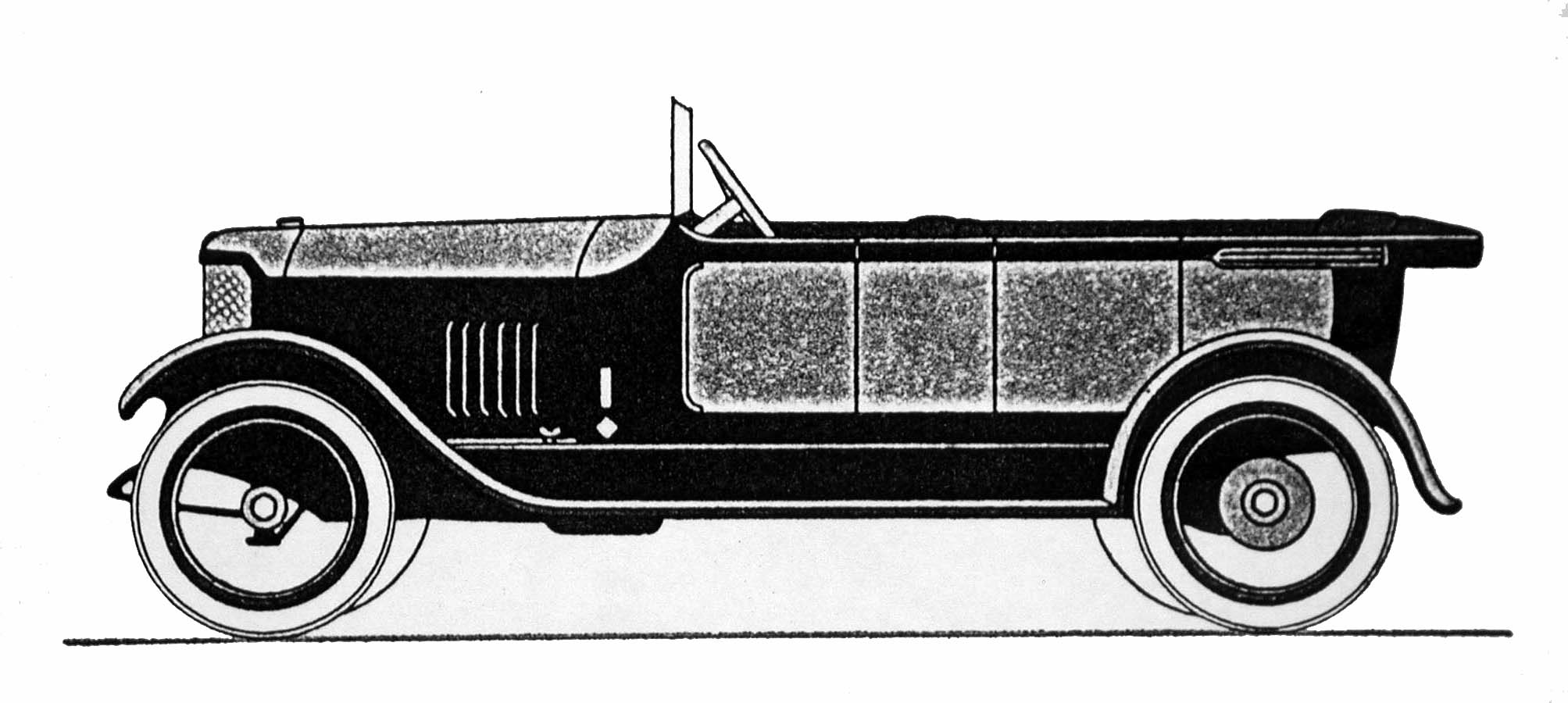 Selve 8/32 PS, 1922-1925, phaéton, carrosserie A. Kellner, Berlin